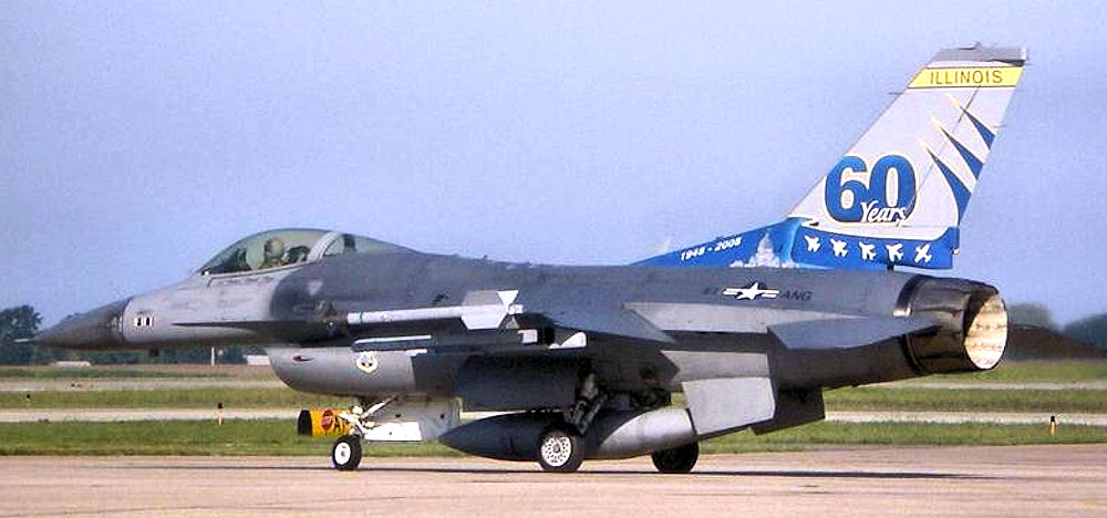 170th Fighter Squadron - 60th Anniversary F-16. USAF F-16C block 30 #87-0296 from the 170th FS is leaving Springfield IAP for its final training flight in September 2008 before the units inactivation